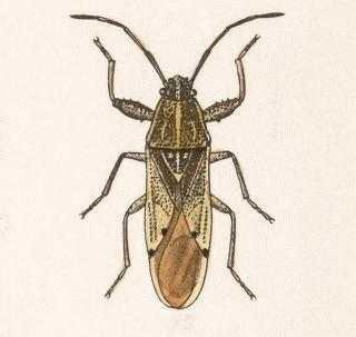 Biologia Centrali-Americana - Pachygrontha oedancalodes Cut-out from original (Biologia Centrali-Americana (8272535292).jpg) shown below